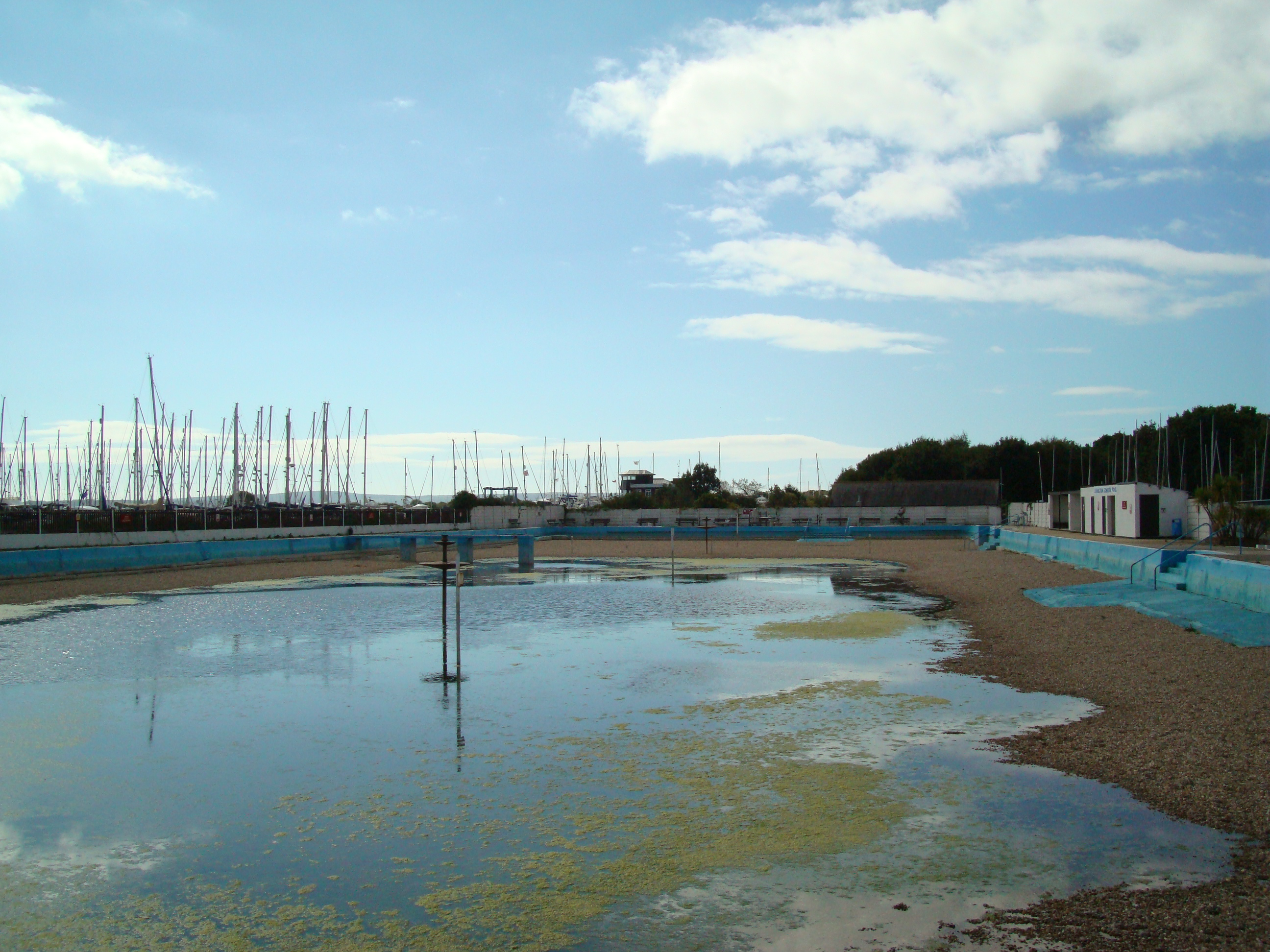 Lymington lido (or baths) pictured here drained for the Winter.